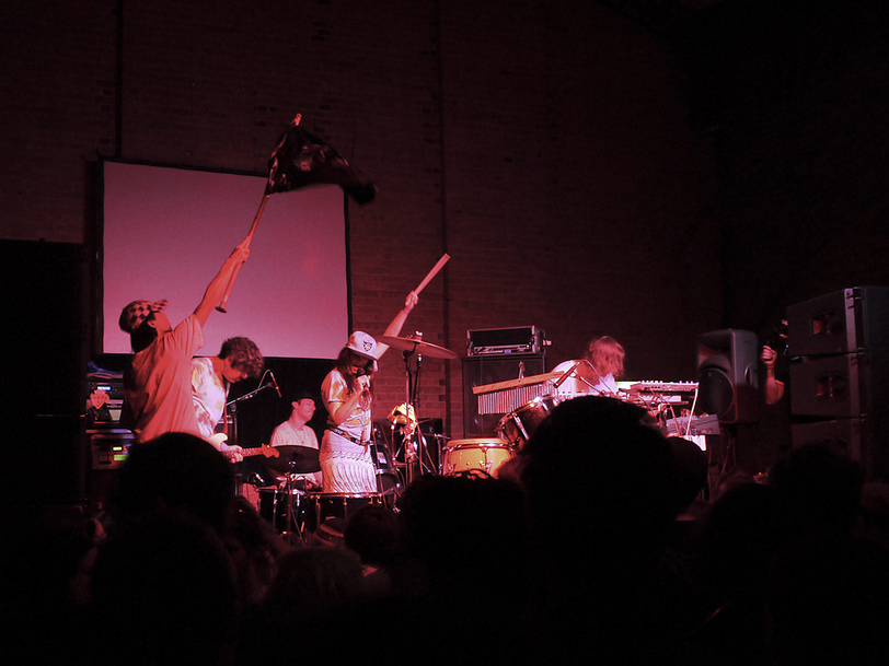 Gang Gang Dance in concert